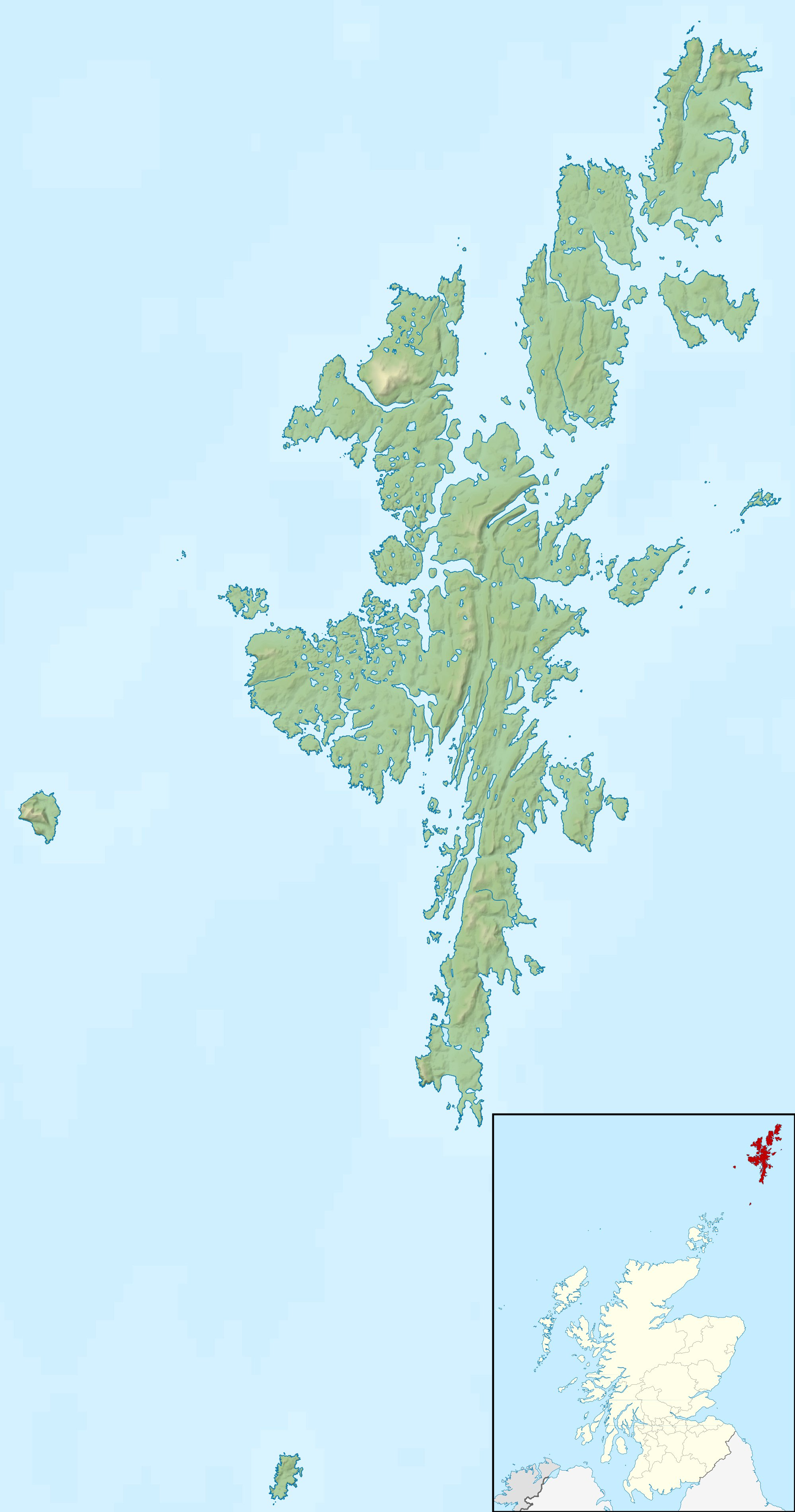 Relief map of the Shetland Islands, UK. Equirectangular map projection on WGS 84 datum, with N/S stretched 200% Geographic limits: West: 2.15W East: 0.70W North: 60.88N South: 59.50N